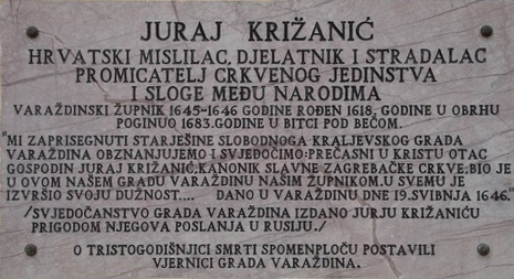 Commemorial plaque in Varaždin, where Križanić lived.